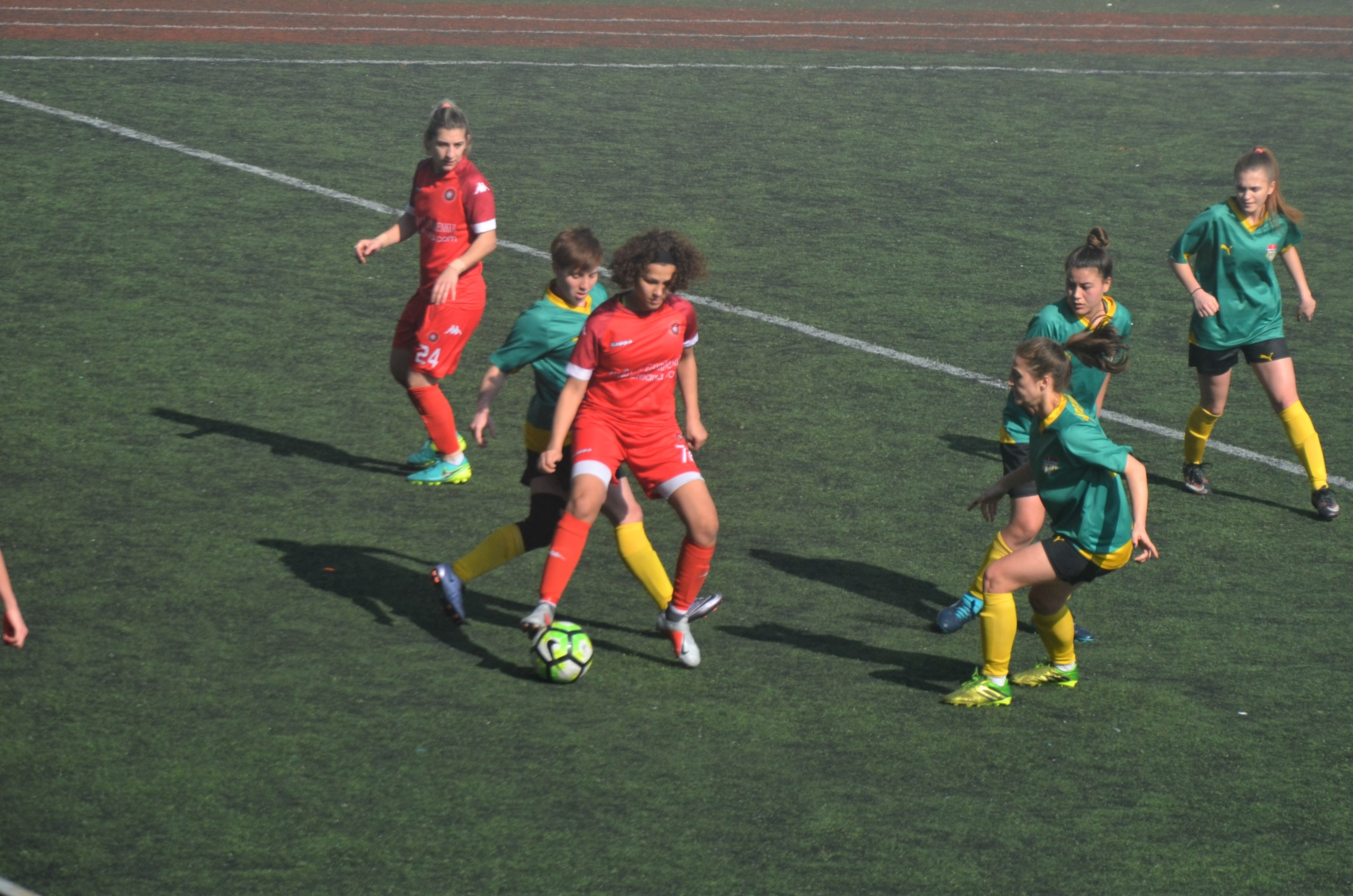 Noha Tarek playing yhe ball for Fatih Vatan Spor (#74) in the 2018-19 Turkish Women's First Football League against Kireçburnu Spor.